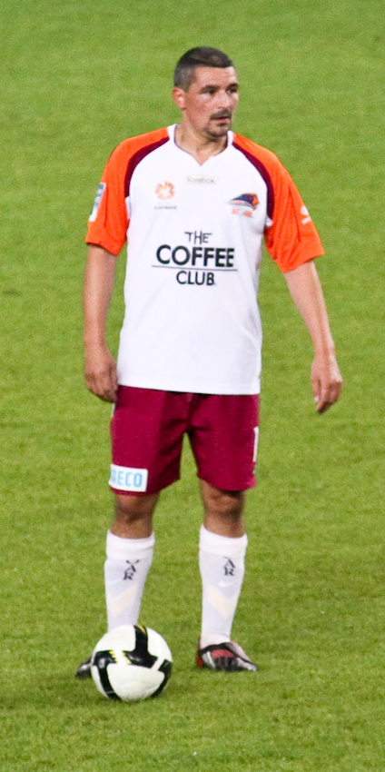 Charlie Miller playing for the Queensland Roar against Sydney FC.